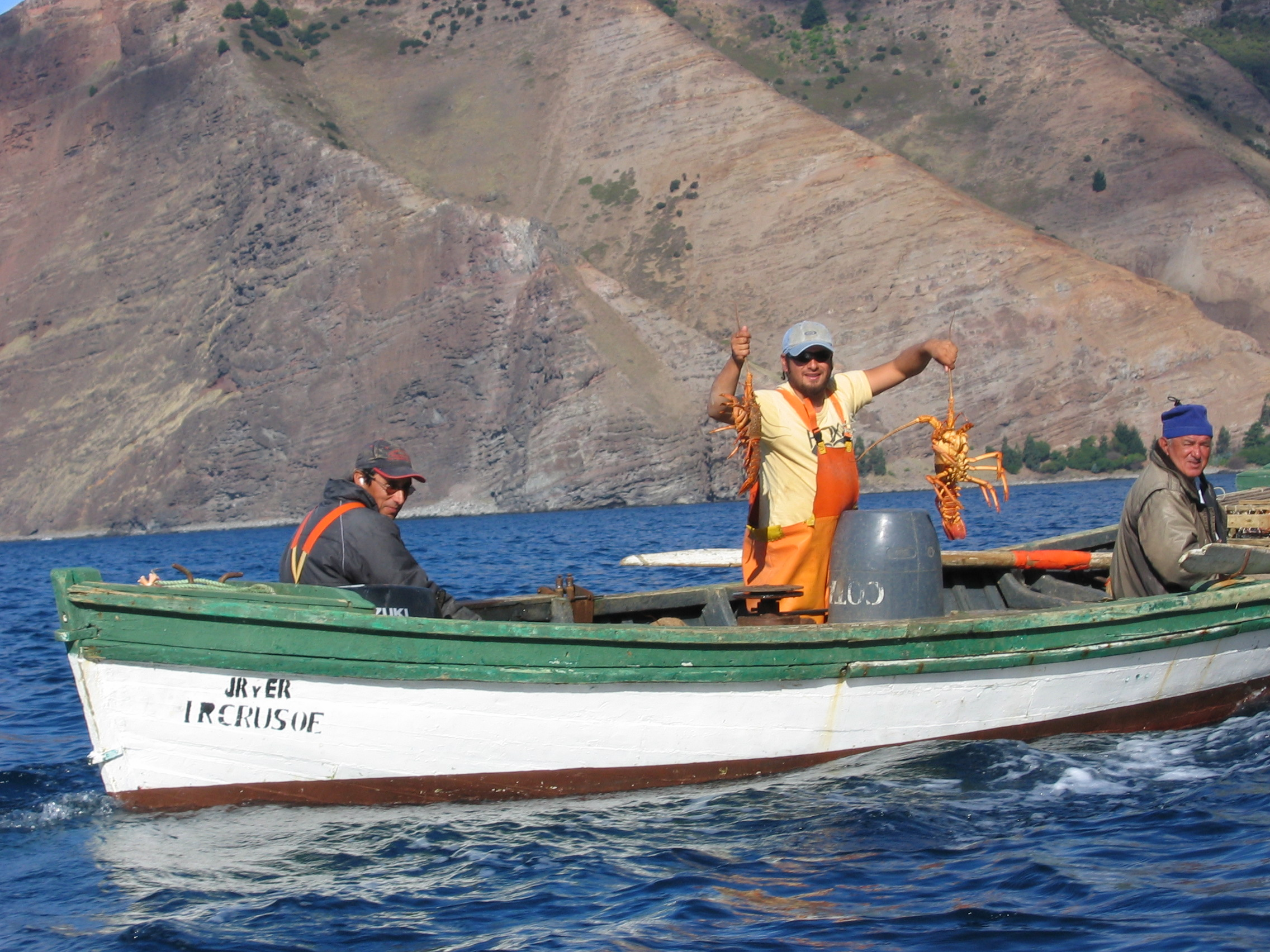 Chile, Archipielago Juan Fernandez, un pescador con 2 Langostas. Chile, Juan Fernandez, a Fisherman with 2 Lobsters. Autor: Serpentus